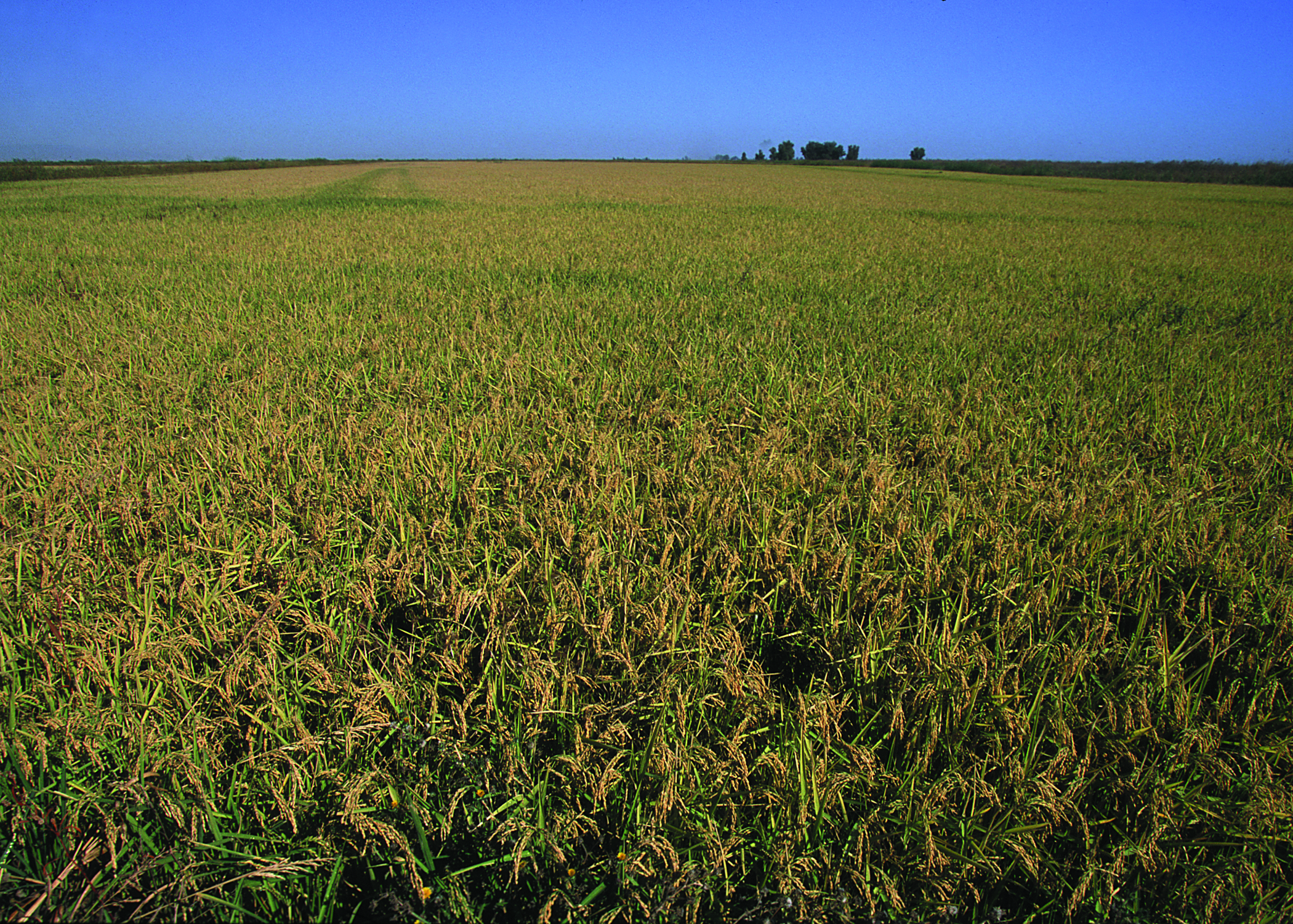 Rice field in Northern California